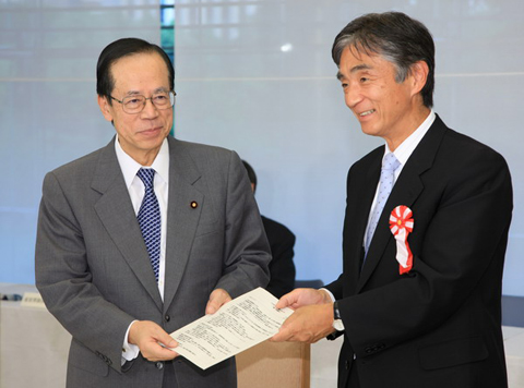 Yūichirō Anzai, Chair of the Meeting on Education Rebuilding, handed the first report to Yasuo Fukuda, Prime Minister, at the Prime Minister's Official Residence in Chiyoda Ward, Tōkyō Metropolis on May 26, 2008.